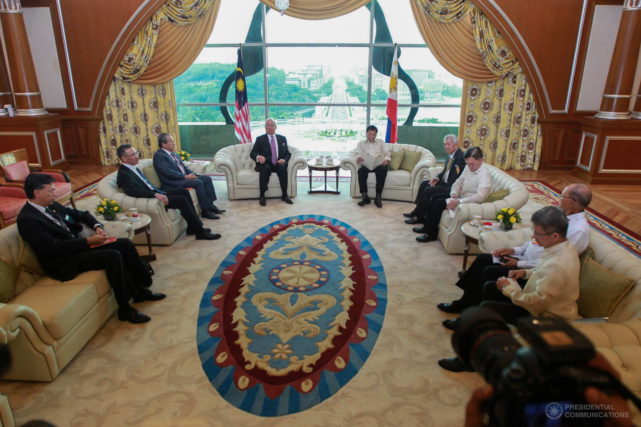 President Rodrigo Duterte with members of his delegation in a meeting with Malaysian Prime Minister Dato Sri Haji Mohammad Najib Bin Tun Haji Abdul Razak at the Prime Minister's Office in Perdana Square, Putrajaya, Malaysia.